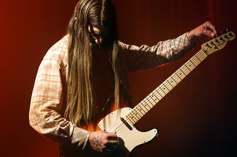 Dylan Carlson at Aarhus Festival, Denmark 2018. Performing with Kevin Martin (The Bug).